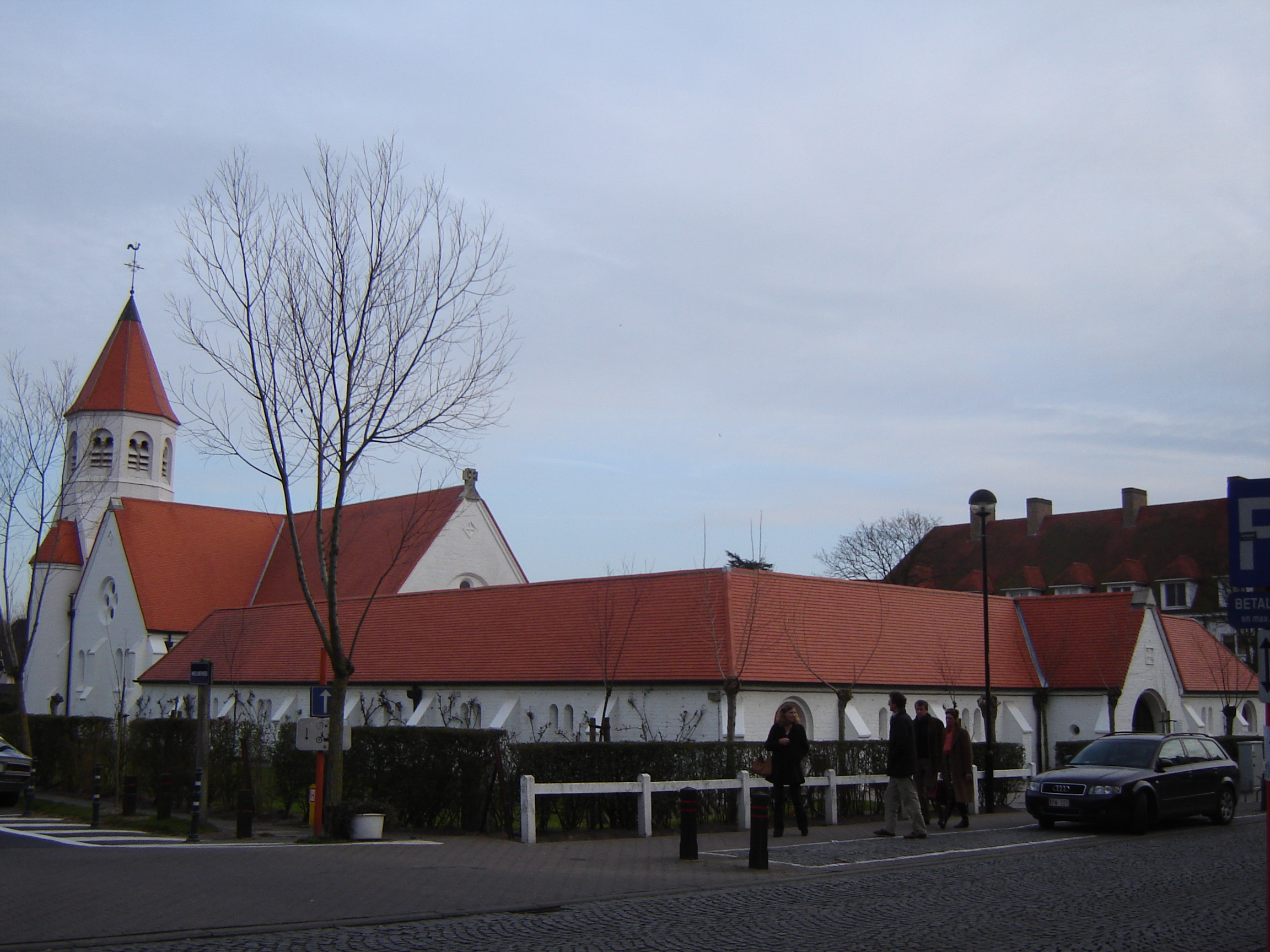 Dominicanenkerk (Dominican church) in Knokke (Zoutekerkje). Knokke, Knokke-Heist, West Flanders, Belgium